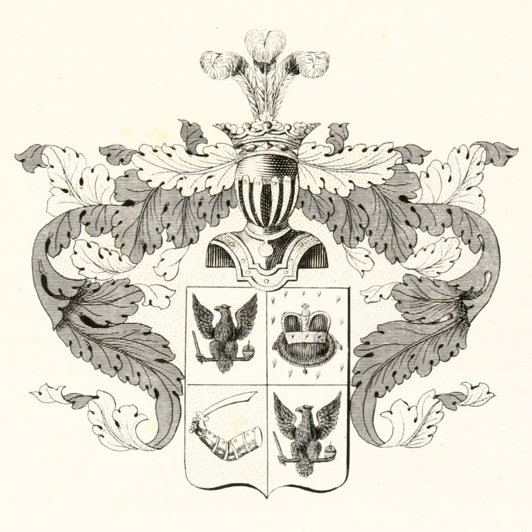 Coat of Arms of Bobrishchev-Pushkin